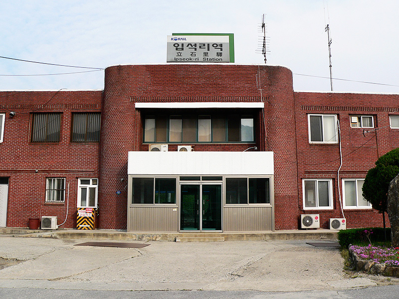 KORAIL Taebaek Line Ipseok-ri Station